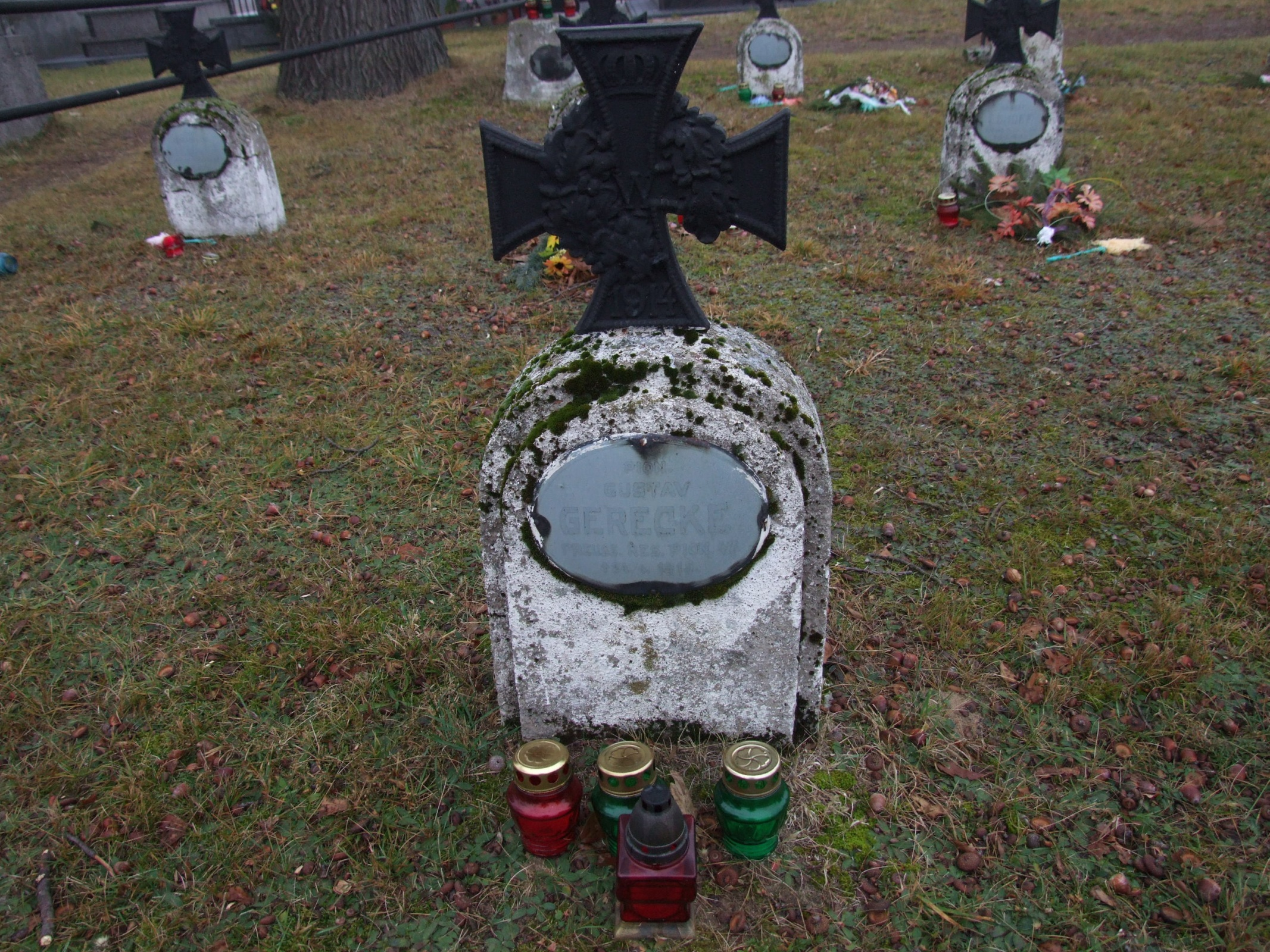 World War I Cemetery nr 270 in Bielcza